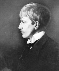 Painting of American author Stephen Crane